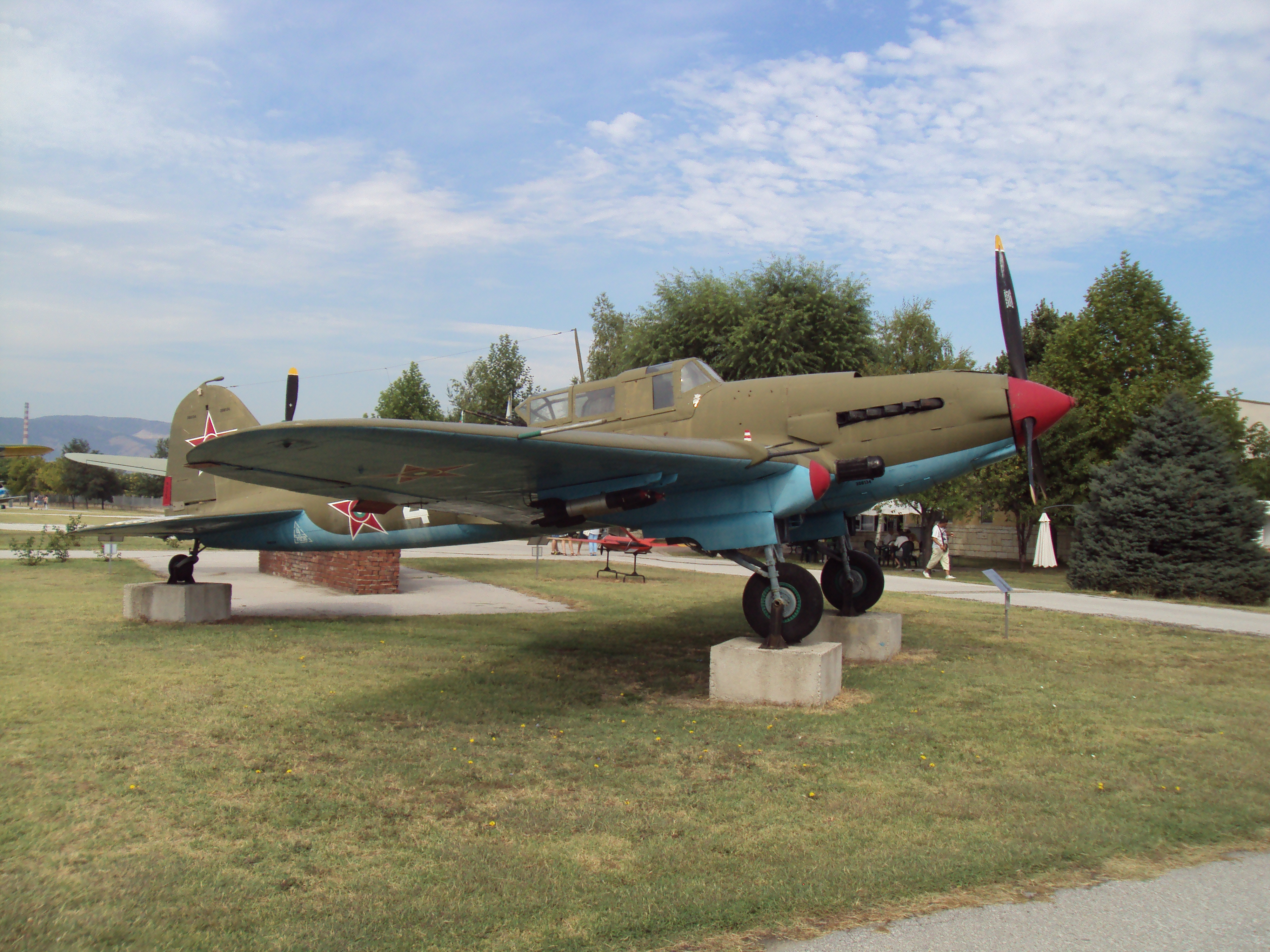 Aviation Museum in Plovdiv